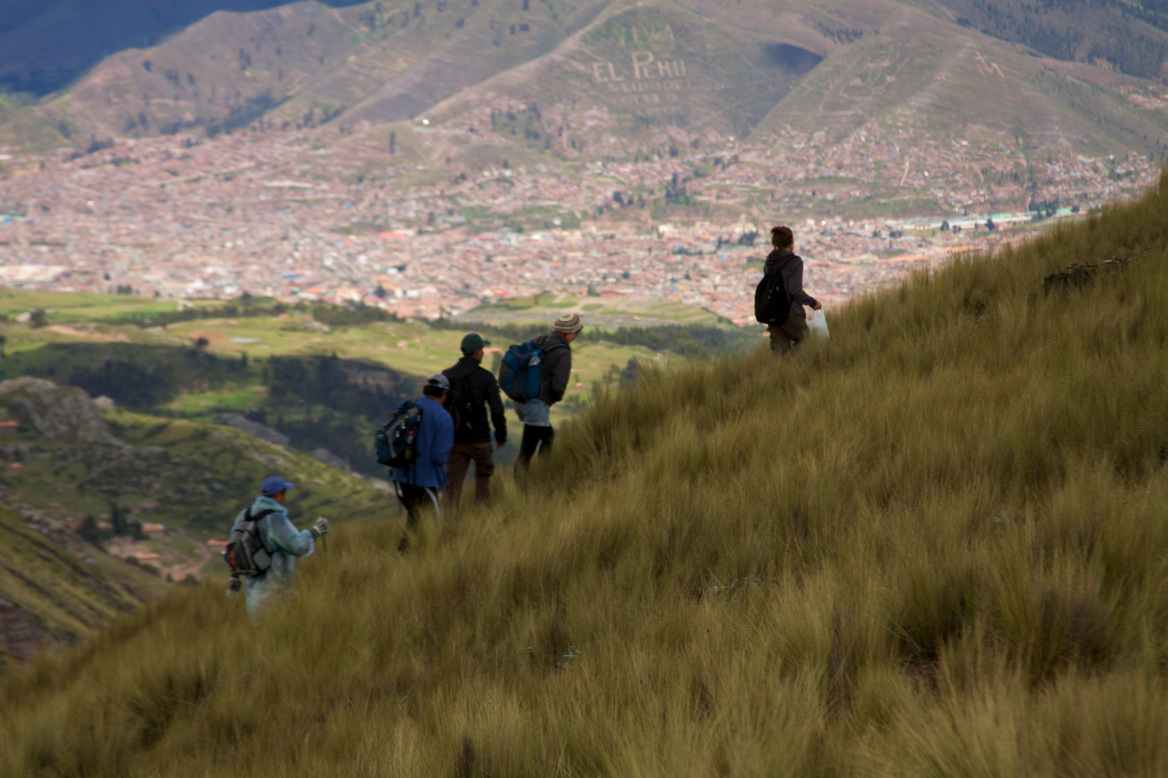 Day-trekking from outside the town of Chinchero over the 4500m hills back to Cusco, we got great views of the city down in the valley as we climbed.